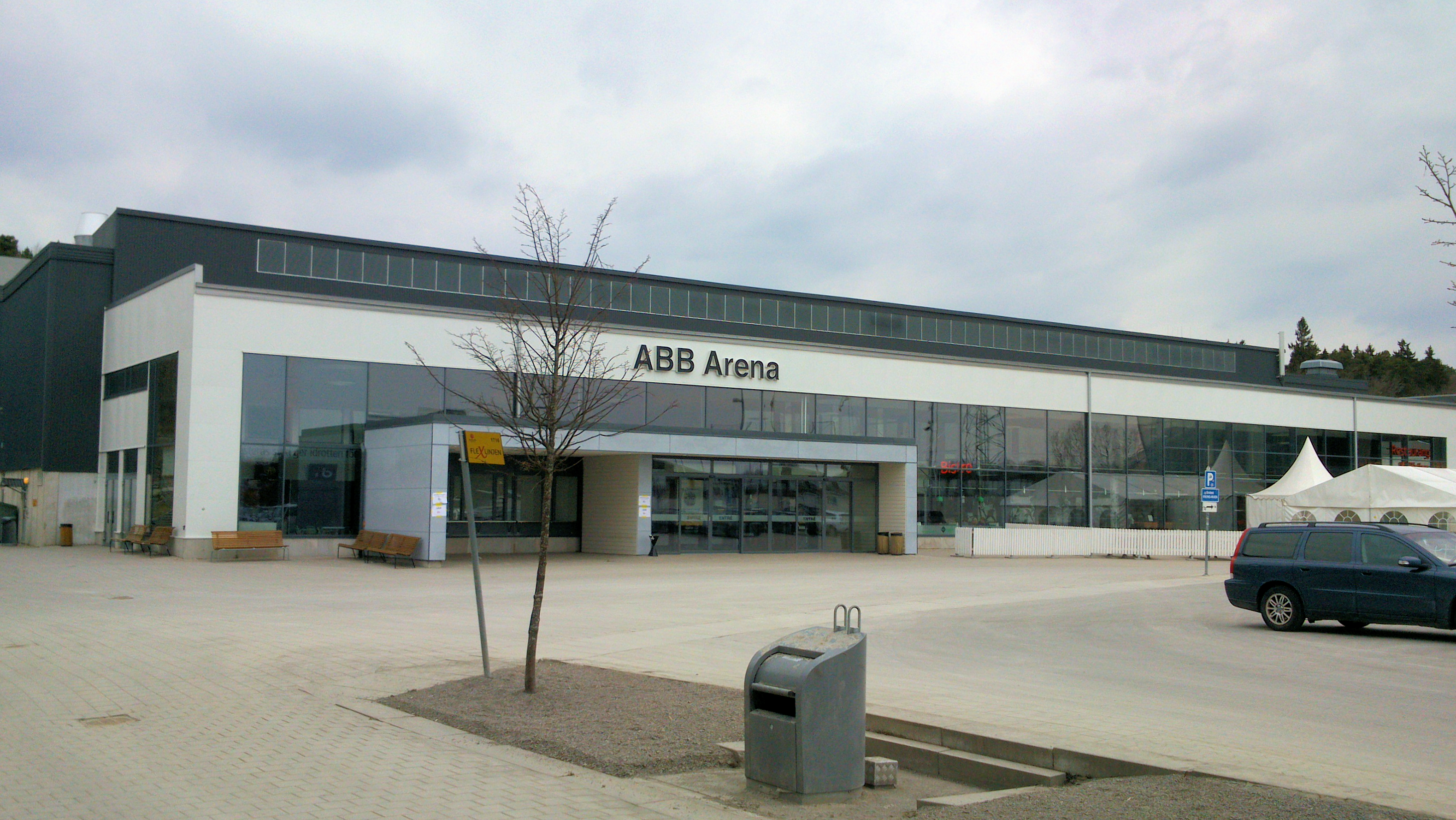 ABB Arena Nord in Västerås, Sweden. Ice hockey arena of Rocklunda sports park in Västerås.